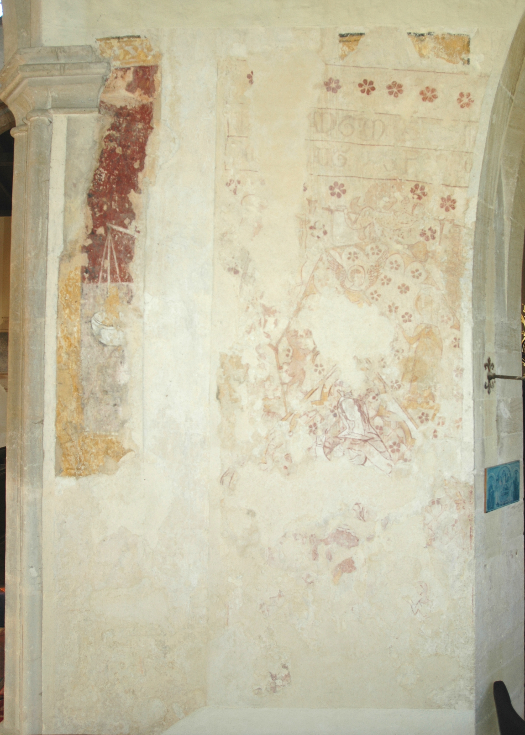 Wall paintings in the Lady Chapel of the Church of England parish church of the Blessed Virgin Mary, Beckley, Oxfordshire.